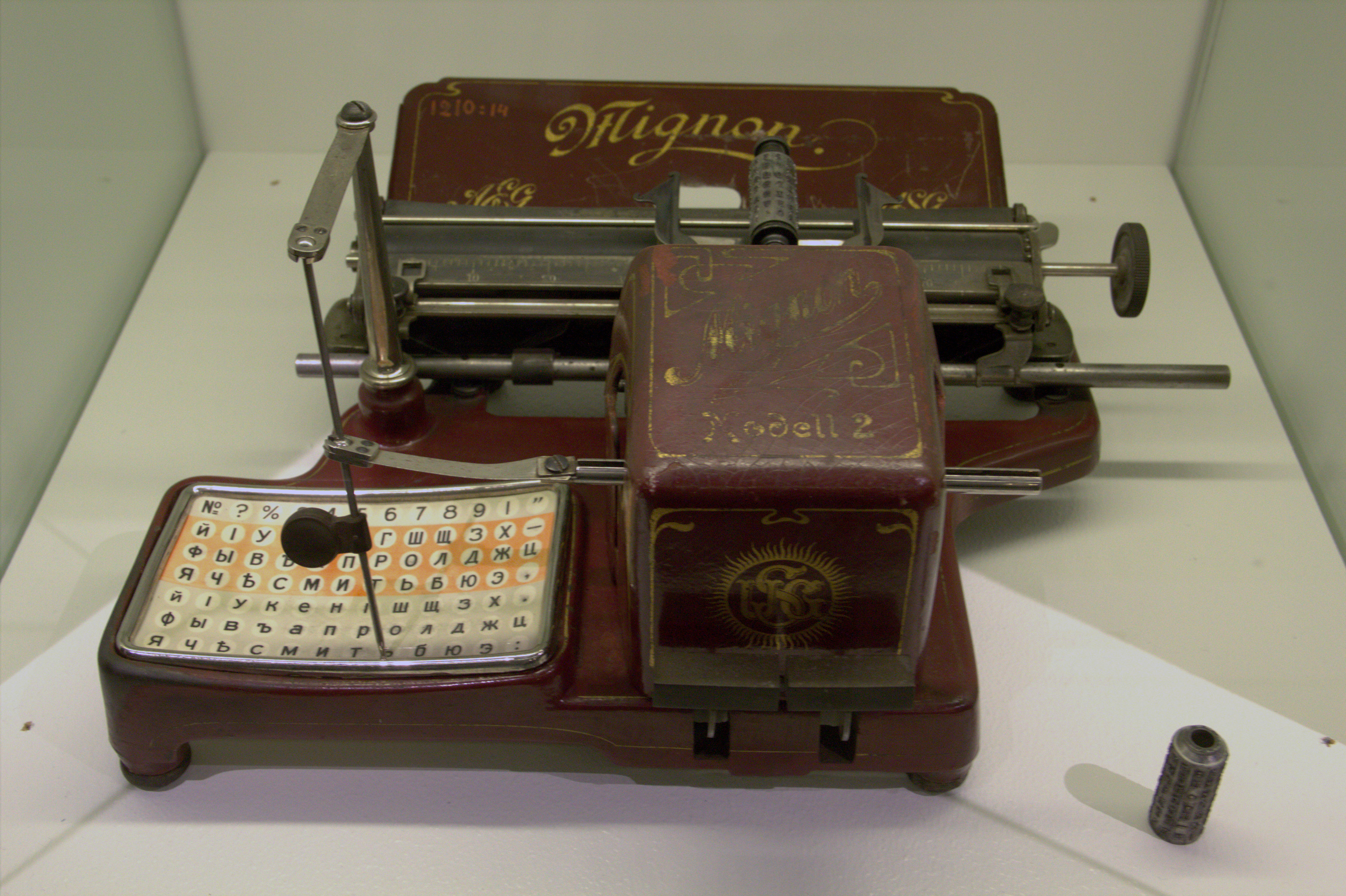 index typewriter in Rupriikki Media Museum. Red Mignon 2, 1906 Germany